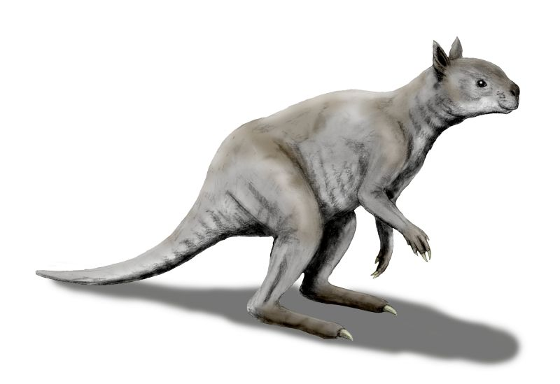 Simosthenurus occidentalis, a sthenurin kangaroo from the Pleistocene of Australia, pencil drawing, digital coloring